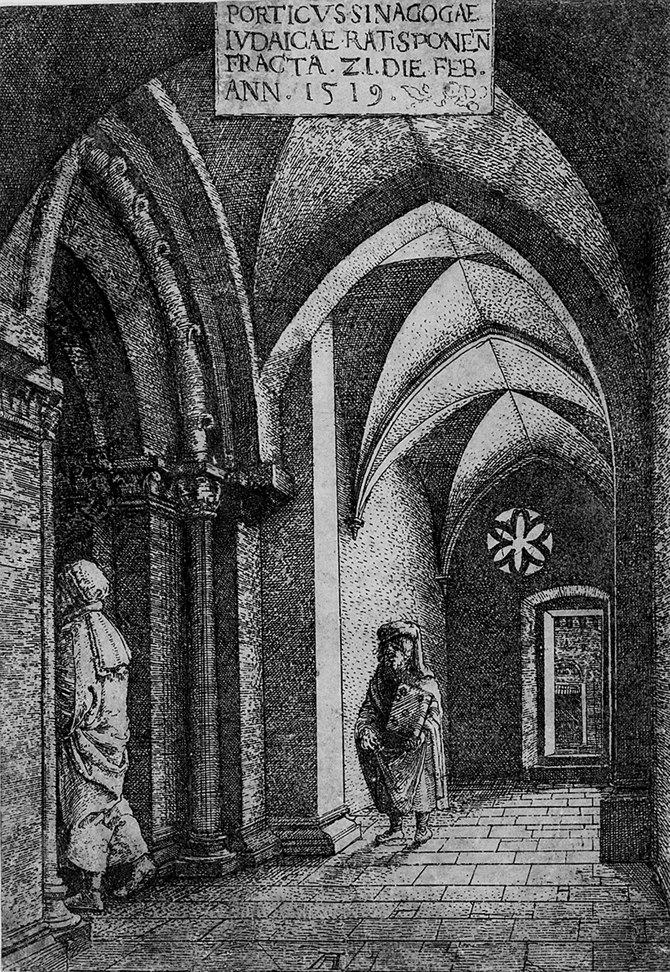 The Entrance Hall of the Regensburg Synagogue, 1519. Etching by Albrecht Altdorfer (German, Regensburg ca. 1480 - 1538). Harris Brisbane Dick Fund, 1926 (26.72.68). Contents 1 Summary 2 Source 3 Licensing 4 Original upload log Summary In the muted light of an open doorway and a rosette window, two Jewish men are shown walking through the entry porch of the Regensburg synagogue. Altdorfer made two etchings of the temple just before it was destroyed on February 22, 1519: this view and one of the interior nave. Emperor Maximilian had long been a protector of the Jews in the imperial cities, extracting from them substantial taxes in exchange. Within weeks of his death, however, the city of Regensburg, which blamed its economic troubles on its prosperous Jewish community, expelled the Jews. Altdorfer, a member of the Outer Council, was one of those chosen to inform the Jews that they had two hours to empty out the synagogue and five days to leave the city. The date of the demolition inscribed at the top of the print suggests that Altdorfer made the preparatory sketches, as well as the etchings themselves, with the knowledge that the building was to be destroyed. The prints appear to have been quickly produced, quite possibly during the five days prior to the temple's destruction: the plate was not evenly etched, particularly in the areas of dense hatching, where the individual lines lose clarity. In addition, the slightly tipsy vaults appear to have been traced freehand rather than with a compass. Despite the seemingly sensitive portrayal, the print was not intended as a sympathetic rendering of an aspect of Jewish culture, but rather as a much more dispassionate recording of the site. It is thus the first portrait of an actual architectural monument in European printmaking.[1] Source The Metropolitan Museum of Art, New York